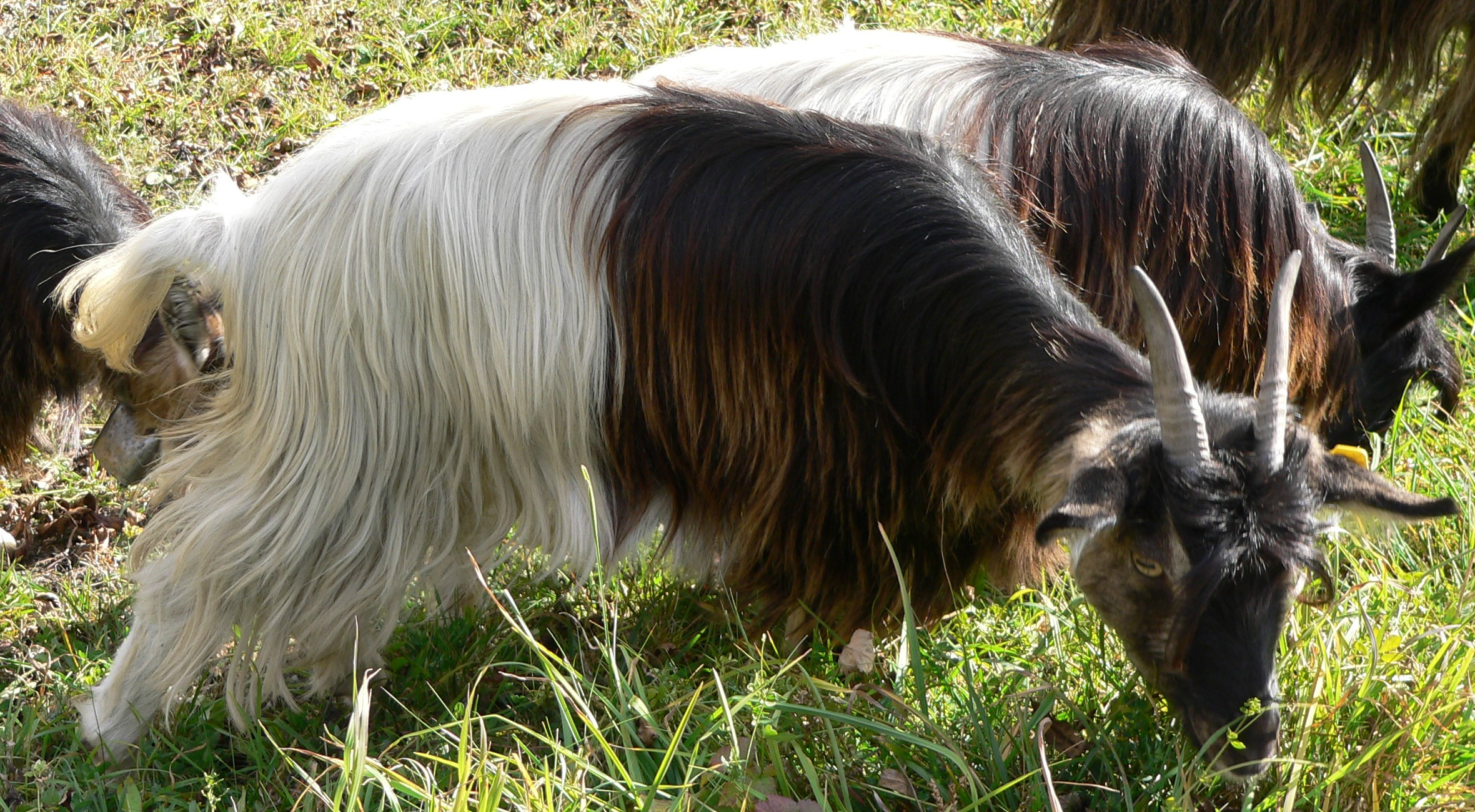 Nov05 Photo taken by user Benutzer:BS Thurner Hof